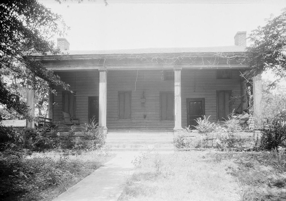 The Cedars, Columbus (Lowndes County, Mississippi) cropped, HABS MISS,44-COLUM,4-1 Image courtesy of Historic American Buildings Survey—HABS. This file comes from the Historic American Buildings Survey (HABS), Historic American Engineering Record (HAER) or Historic American Landscapes Survey (HALS). These are programs of the National Park Service established for the purpose of documenting historic places. Records consist of measured drawings, archival photographs, and written reports. When reusing please credit: Library of Congress, Prints & Photographs Division, MS-84 This tag does not indicate the copyright status of the attached work. A normal copyright tag is still required. See Commons:Licensing. This work is in the public domain in the United States because it is a work prepared by an officer or employee of the United States Government as part of that person’s official duties under the terms of Title 17, Chapter 1, Section 105 of the US Code. Note: This only applies to original works of the Federal Government and not to the work of any individual U.S. state, territory, commonwealth, county, municipality, or any other subdivision. This template also does not apply to postage stamp designs published by the United States Postal Service since 1978. (See § 313.6(C)(1) of Compendium of U.S. Copyright Office Practices). It also does not apply to certain US coins; see The US Mint Terms of Use. This file has been identified as being free of known restrictions under copyright law, including all related and neighboring rights. Object location33° 30′ 36″ N, 88° 25′ 09″ W